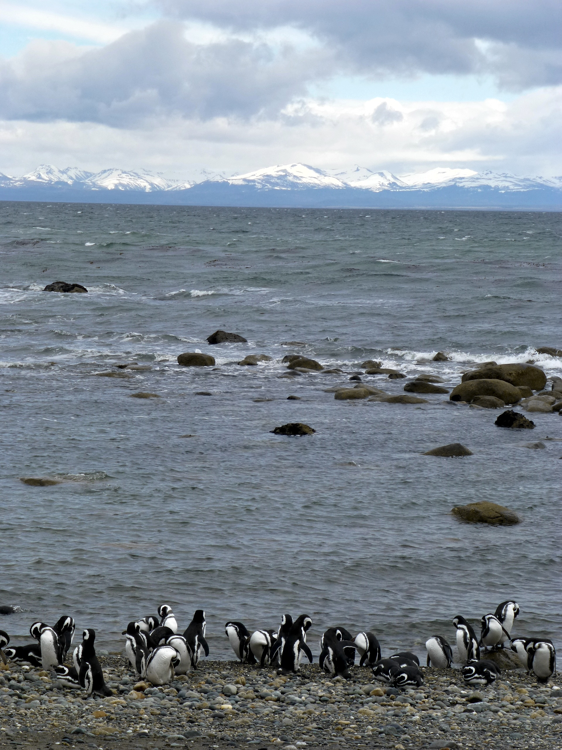 Members of the IceBridge team visited a colony of Magellanic penguins near Punta Arenas on a no-flight day. NASA's Operation IceBridge is an airborne science mission to study Earth's polar ice.